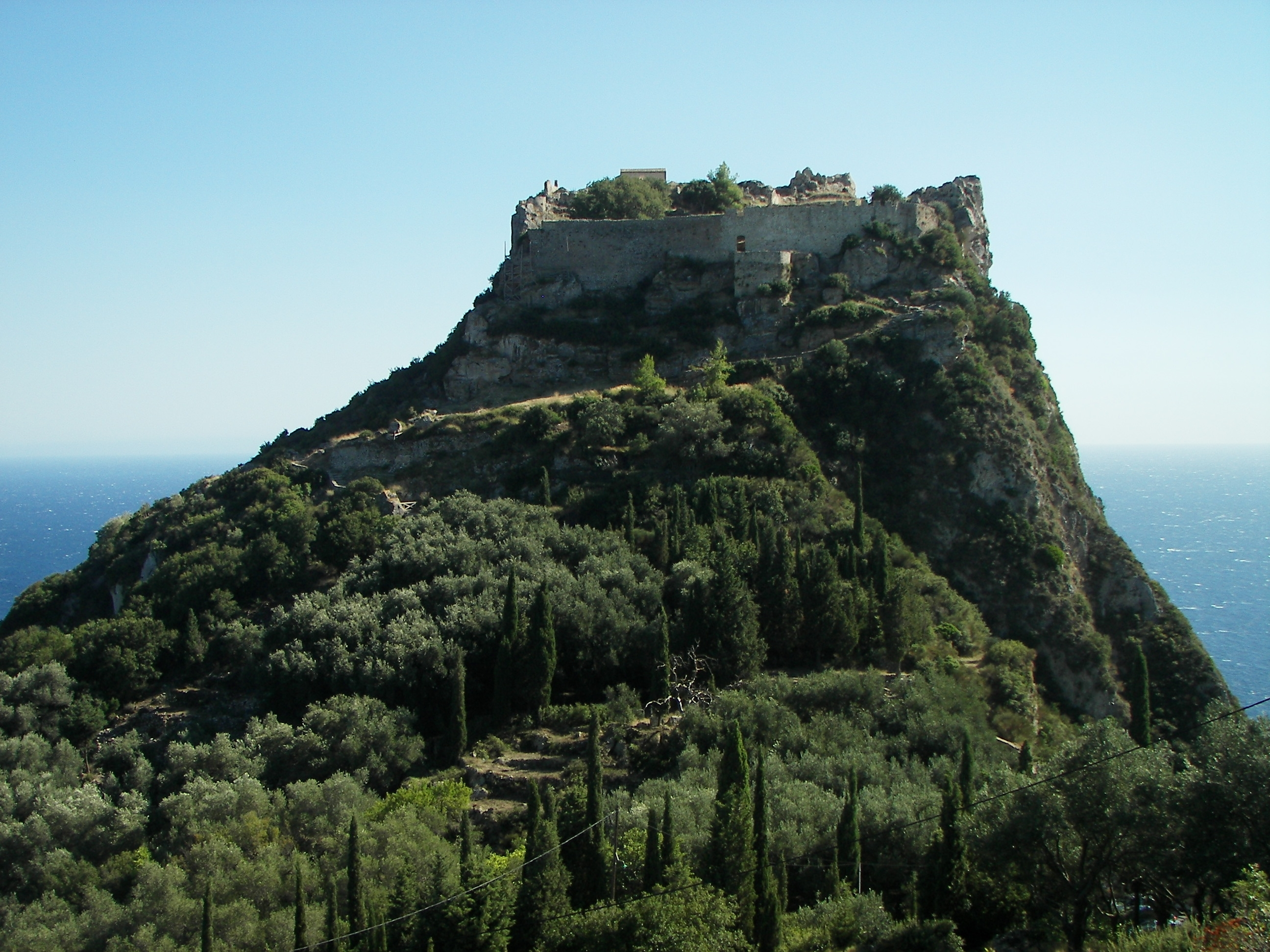 I am the creator. Dr.K. 20:46, 26 December 2006 (UTC)